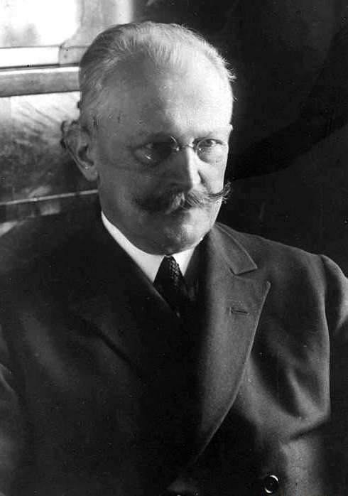 Stanisław Patek, Polish lawyer , advocate in cases of human righs in Tsarist Russia , diplomat, Minister of Foreign Affairs ,the Ambassador of the Republic of Poland to USA and Soviet Union,retired 1935, died 1944